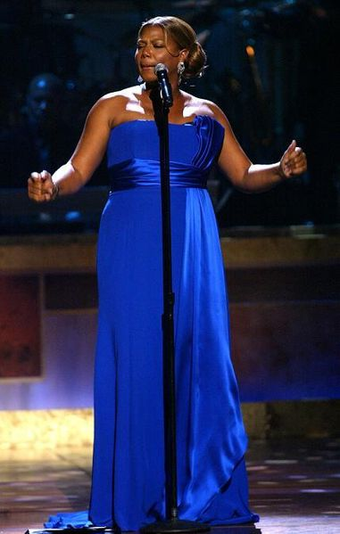 Latifah performing at the 2nd Annual BET Honors.